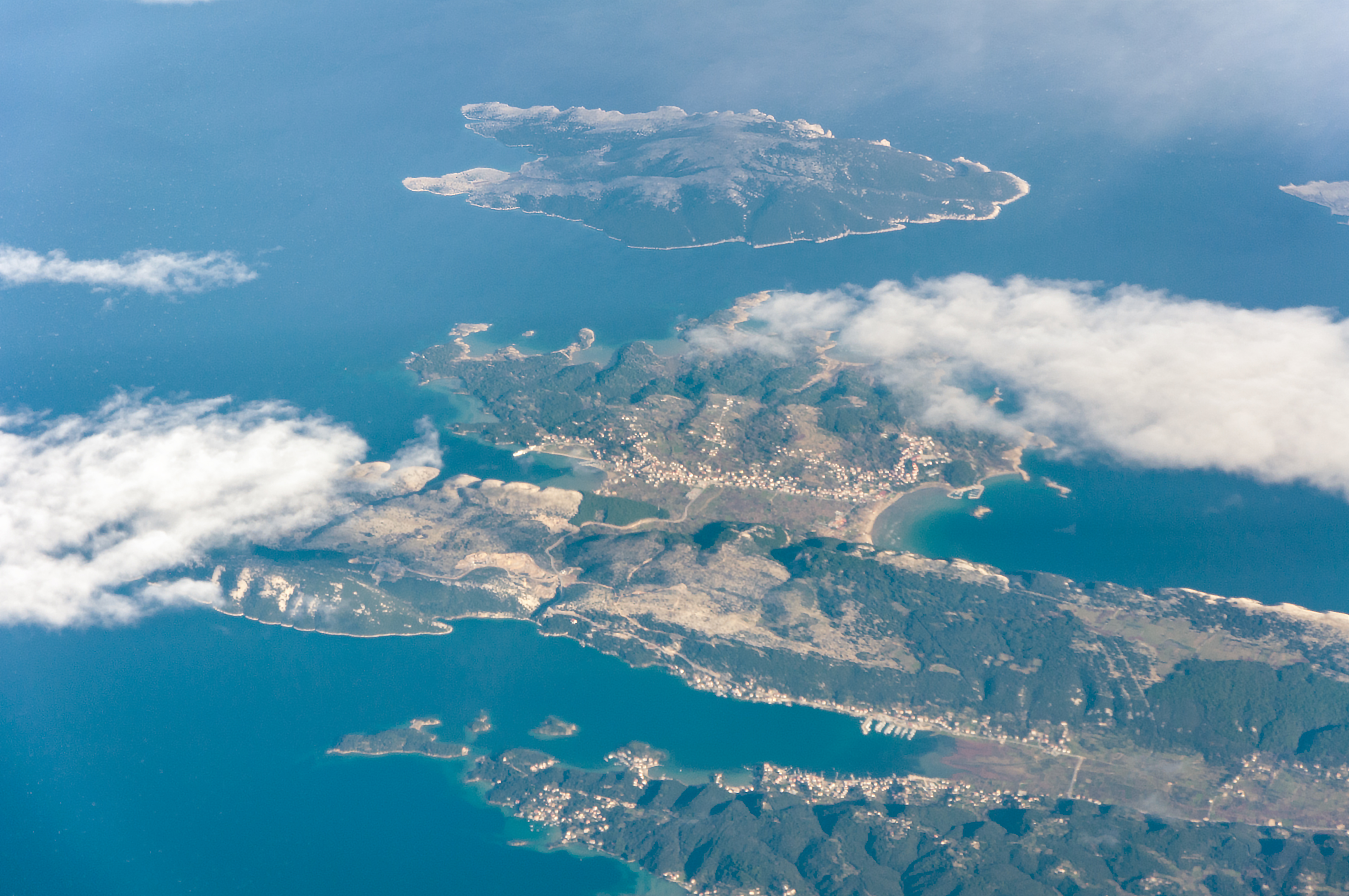 Croatia, aerial views along the coast of Croatia